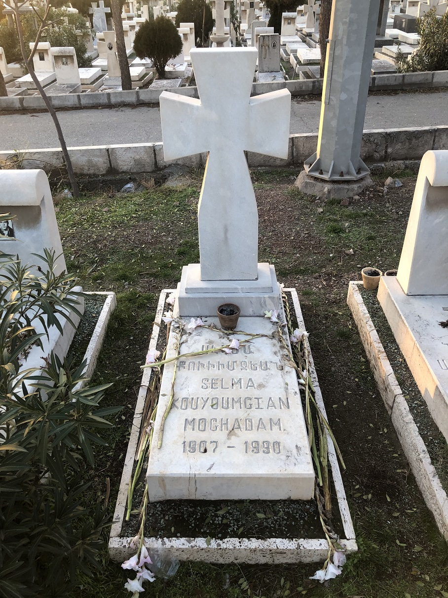 Burastan Cemetery